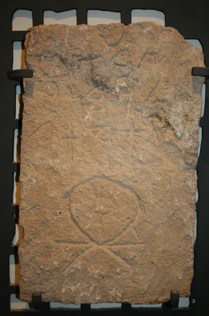 Phoenician headstone. Haifa,Hecht Museum.